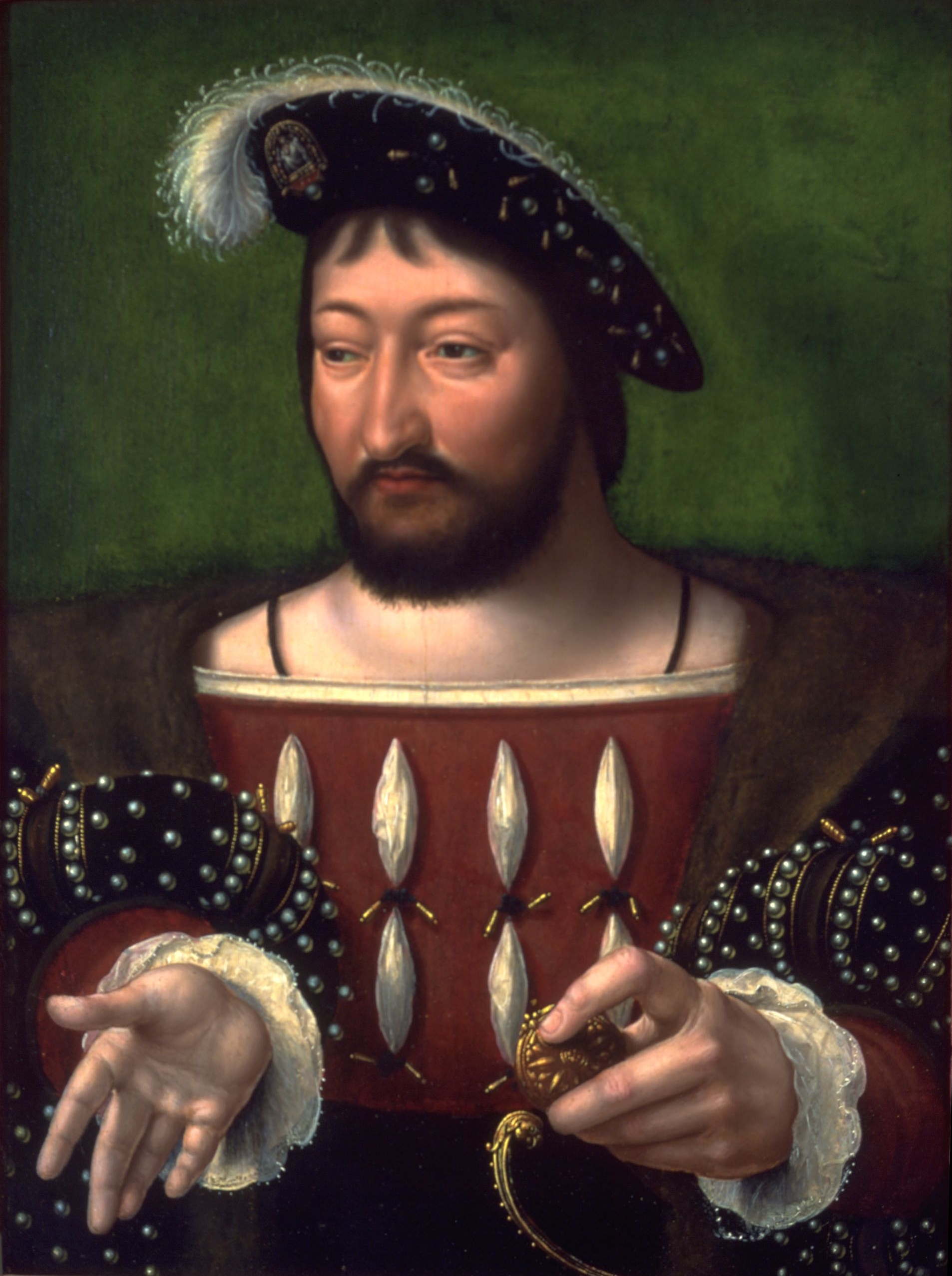 Portrait of Francis I of France